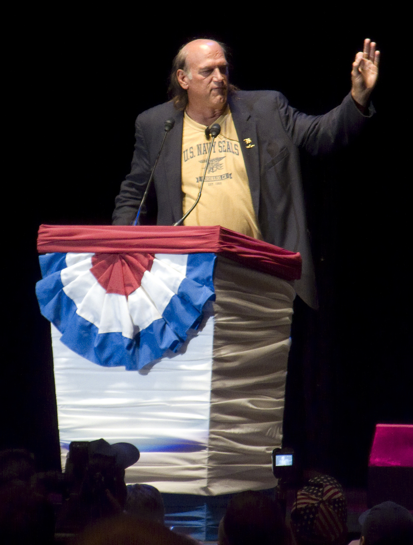 Image of Gov Jesse Ventura